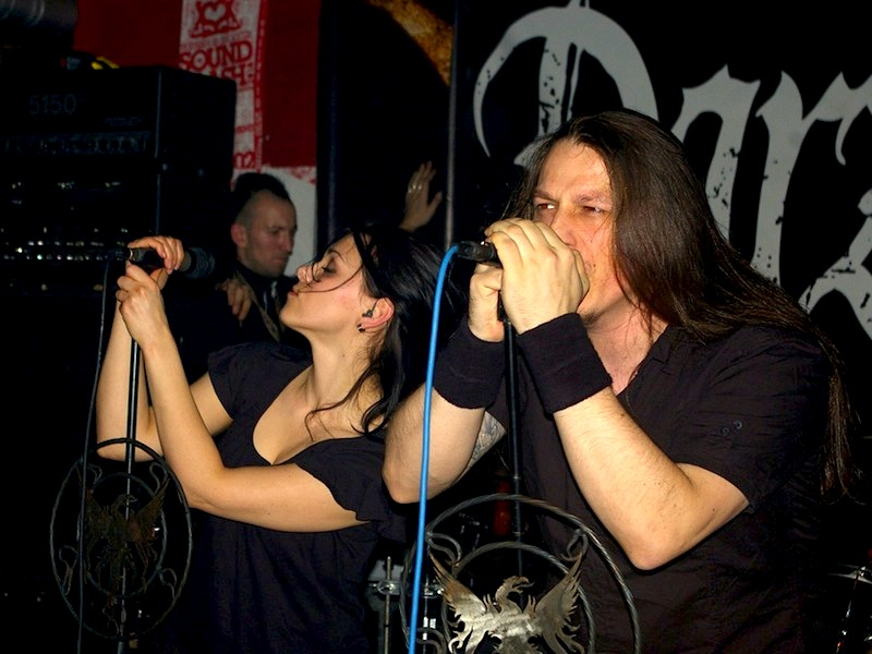 Nera and Flauros from Darzamat on Rebellion Tour 2010.